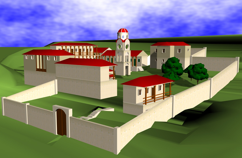 3D simulation of past condition